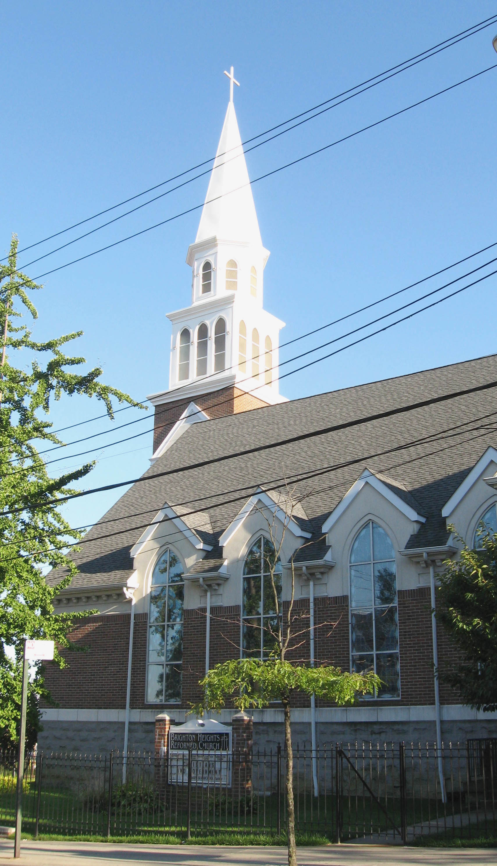 Looking southeast at Brighton Heights Reformed Church on a sunny late afternoon.